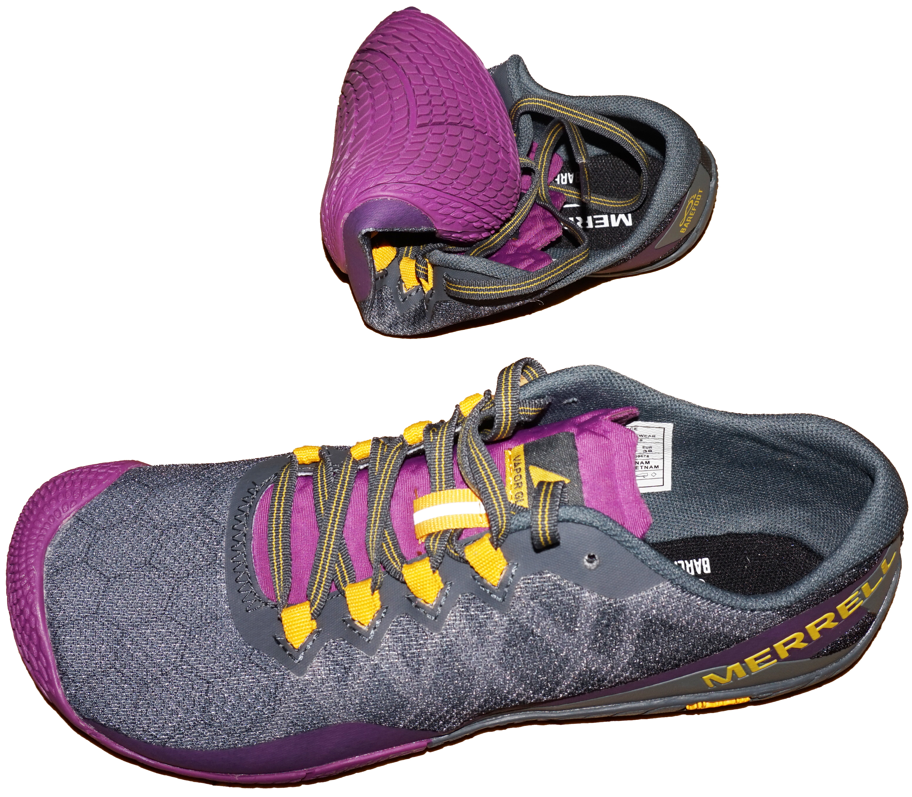 Merrell Vapor Glove 3 women barefoot running shoes. Size: 38, weight: 145 grams/shoe.